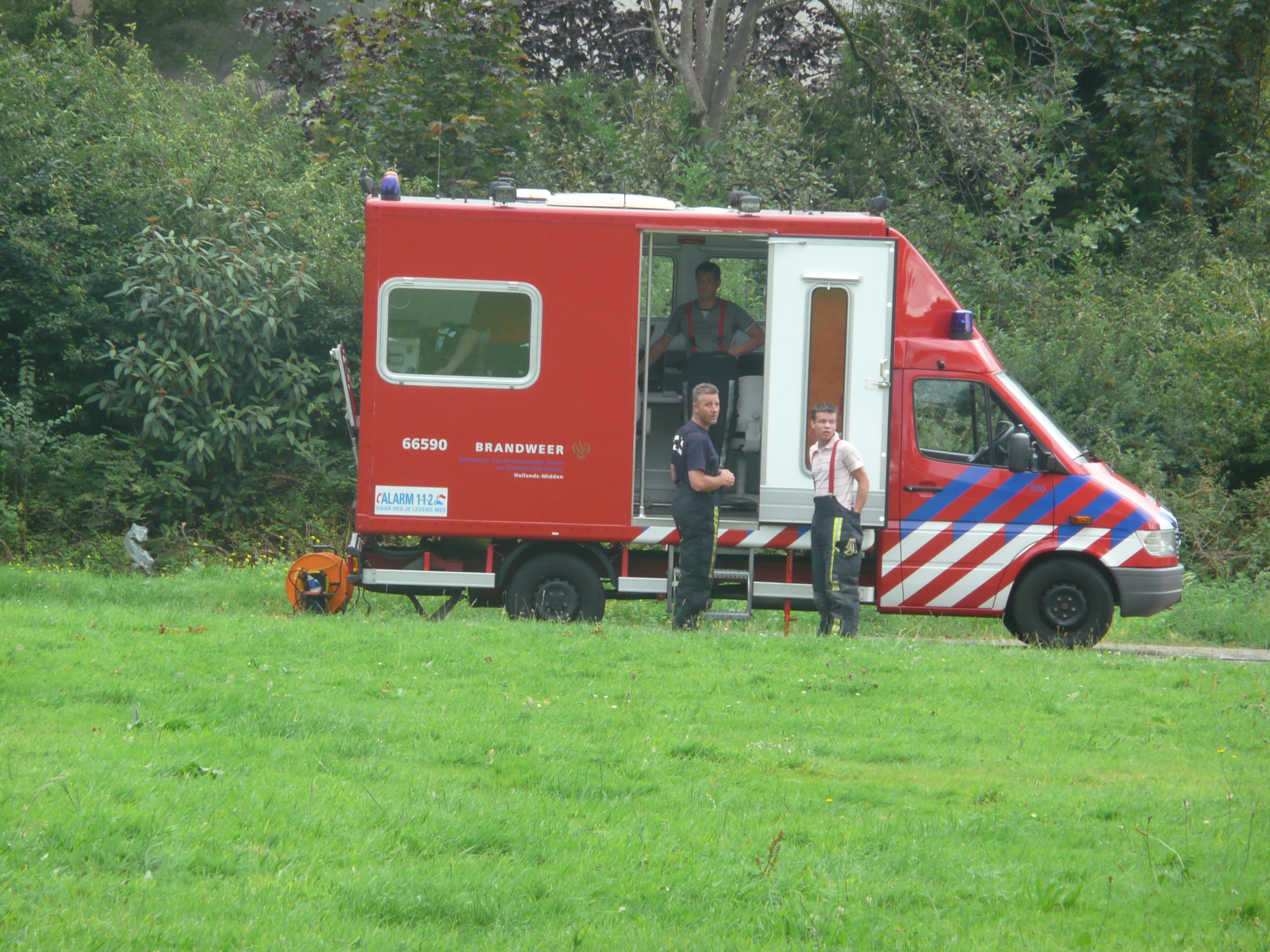 Dutch fireservice command and communications van type VC-2